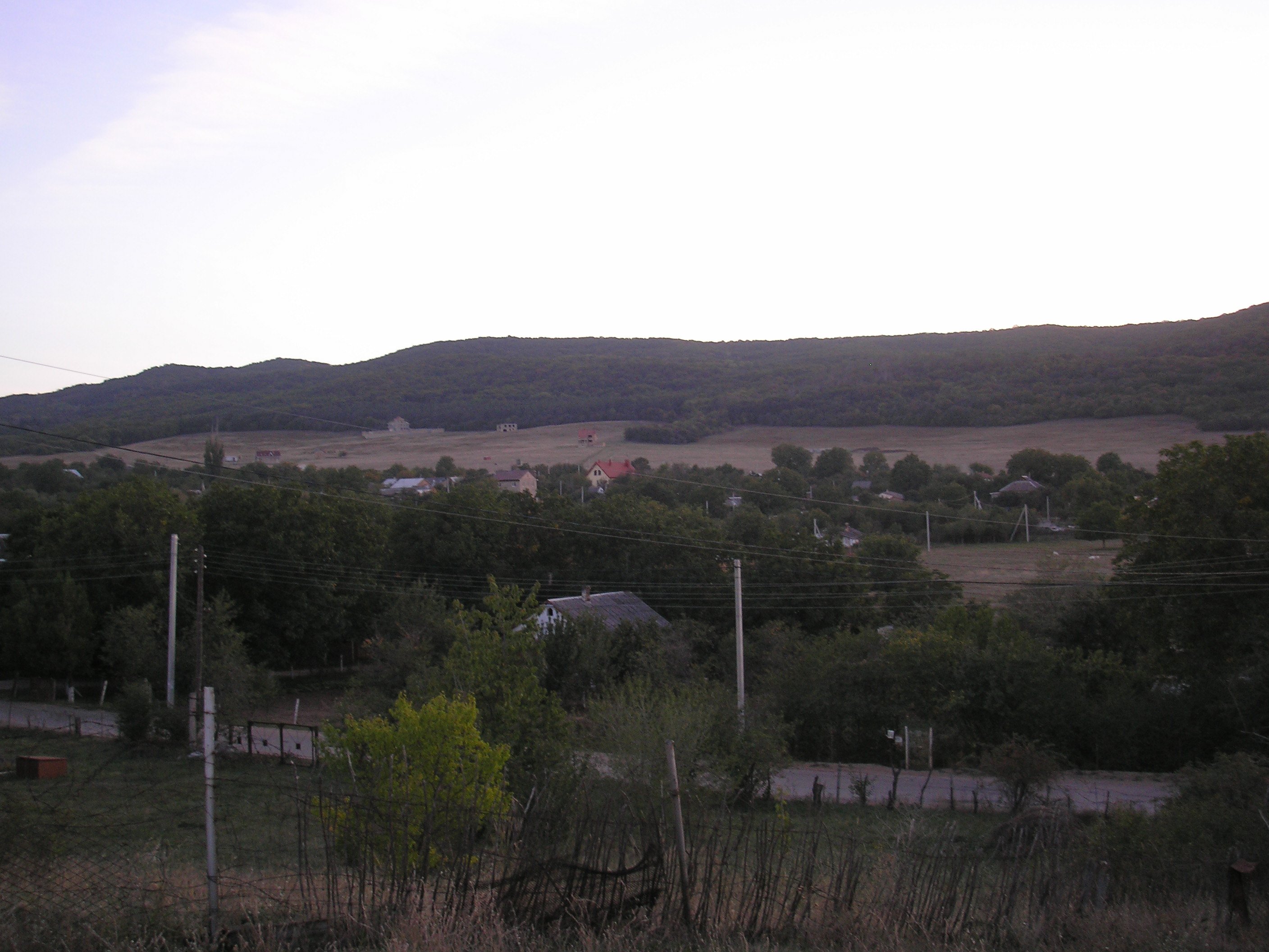 Village Krasnolesye, Simferopol district, Crimea